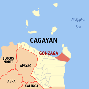 Map of Cagayan showing the location of Gonzaga